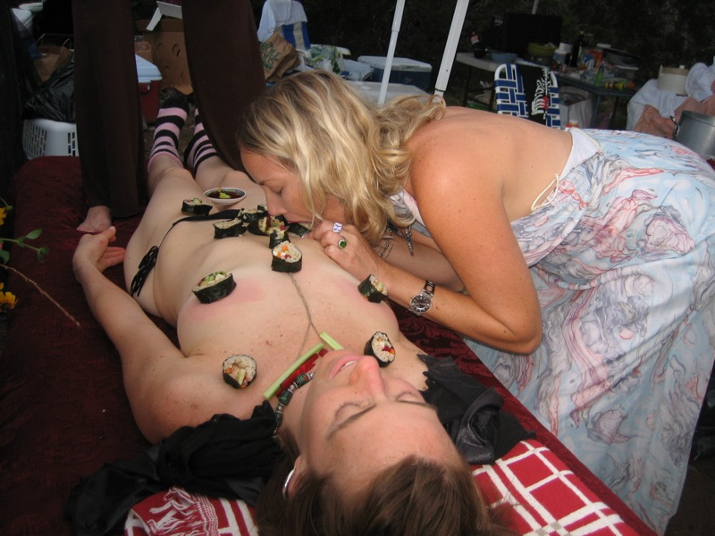 Food play: woman eating Maki-zushi on the body of a topless woman at Burning Flipside 2007